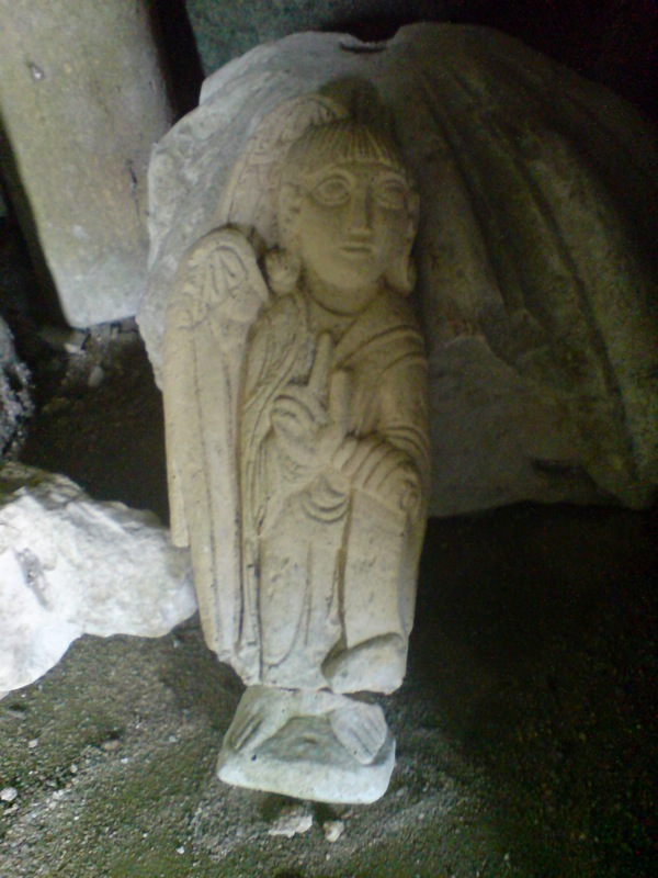 Norman sculpture of an angel in Shaftesbury Abbey, Dorset